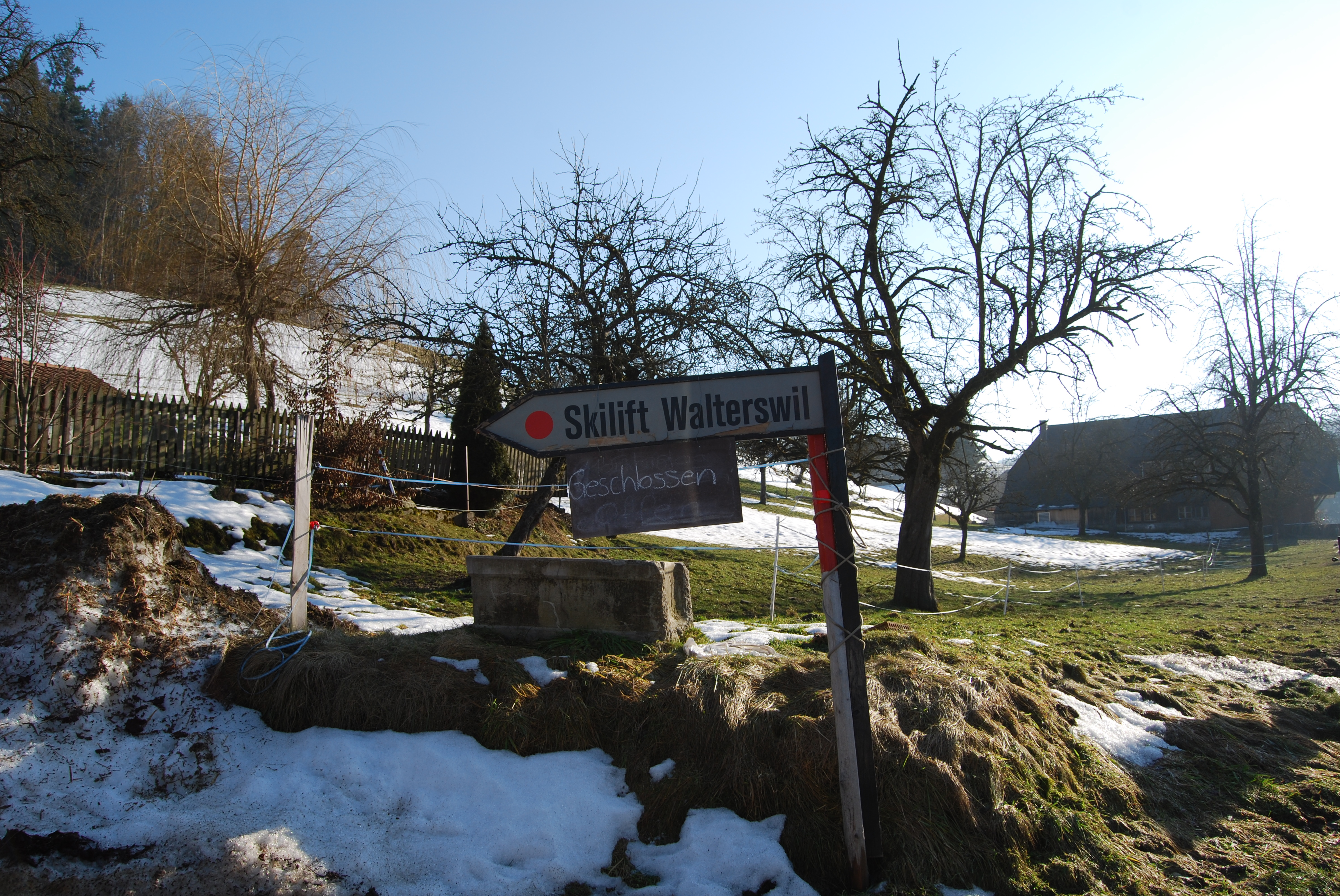 Walterwsil canton of Bern, SwitzerlandEsperanto: Walterswil Kantono Berno, Svislando